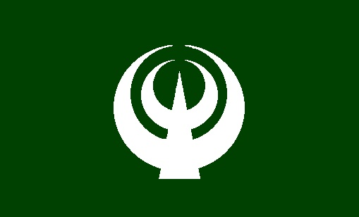 Flag of Tamaki Mie